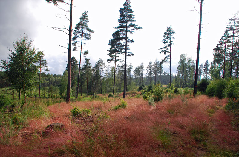 Snarsmon, Tanum, Sweden